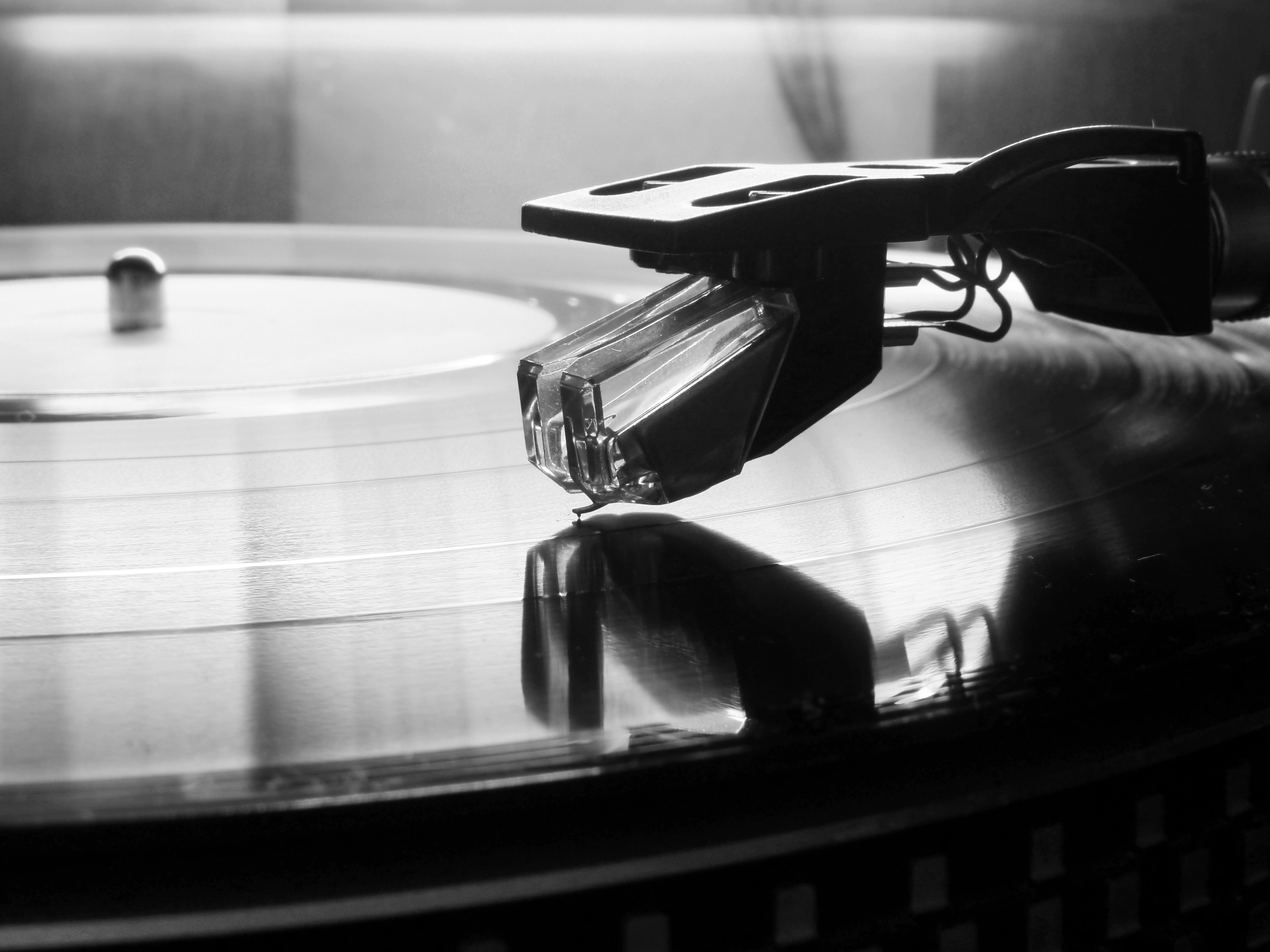 Needle of a turntable, the blue light comes from a ccfl which sticks on the case.